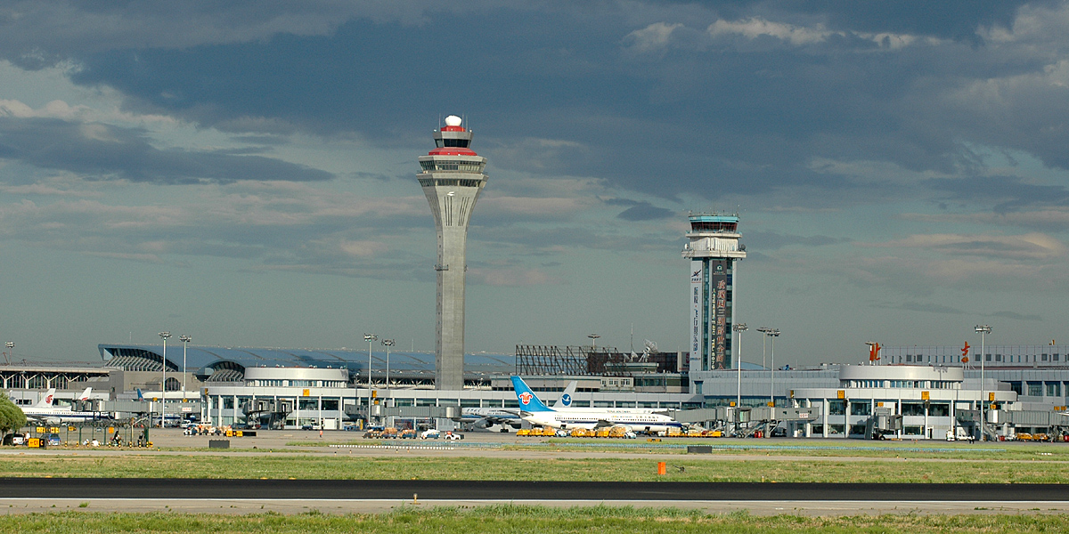 Beijing Capital International Airport, Jun 2005. Photo shows the ATC towers and terminal 1 & 2, viewing from the west of runway 36L.